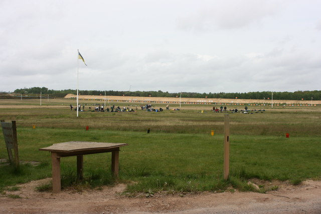 Bisley Ranges Saturday morning on Bisley Ranges, taken through the fence from Wisdom Corner, Queens Road.